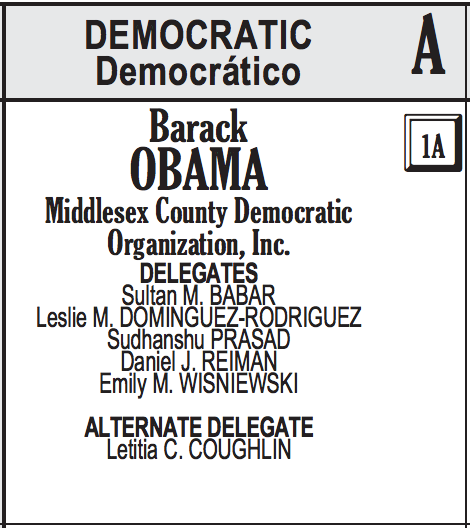 Mayor Daniel J. Reiman and Sultan M. Babar of Carteret appear as 2 out of the 5 Obama delegates to the 2012 DNC.